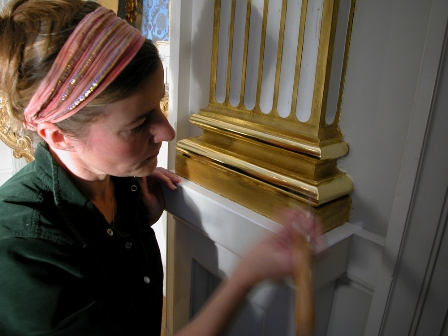 The Art of Gilding: traditional water gilding - Burnishing the gold with an agate stone. Master Gilders, founded by Laurence Filet, a master gilder and native of France is a traveling team of craftsmen dedicated to the revival of the art and craft of gilding. Using traditional techniques and methods, combined with new technologies, they bring the timeless beauty of precious metal finishes to projects ranging in size from large architectural interiors and exteriors to fine objets d’art.